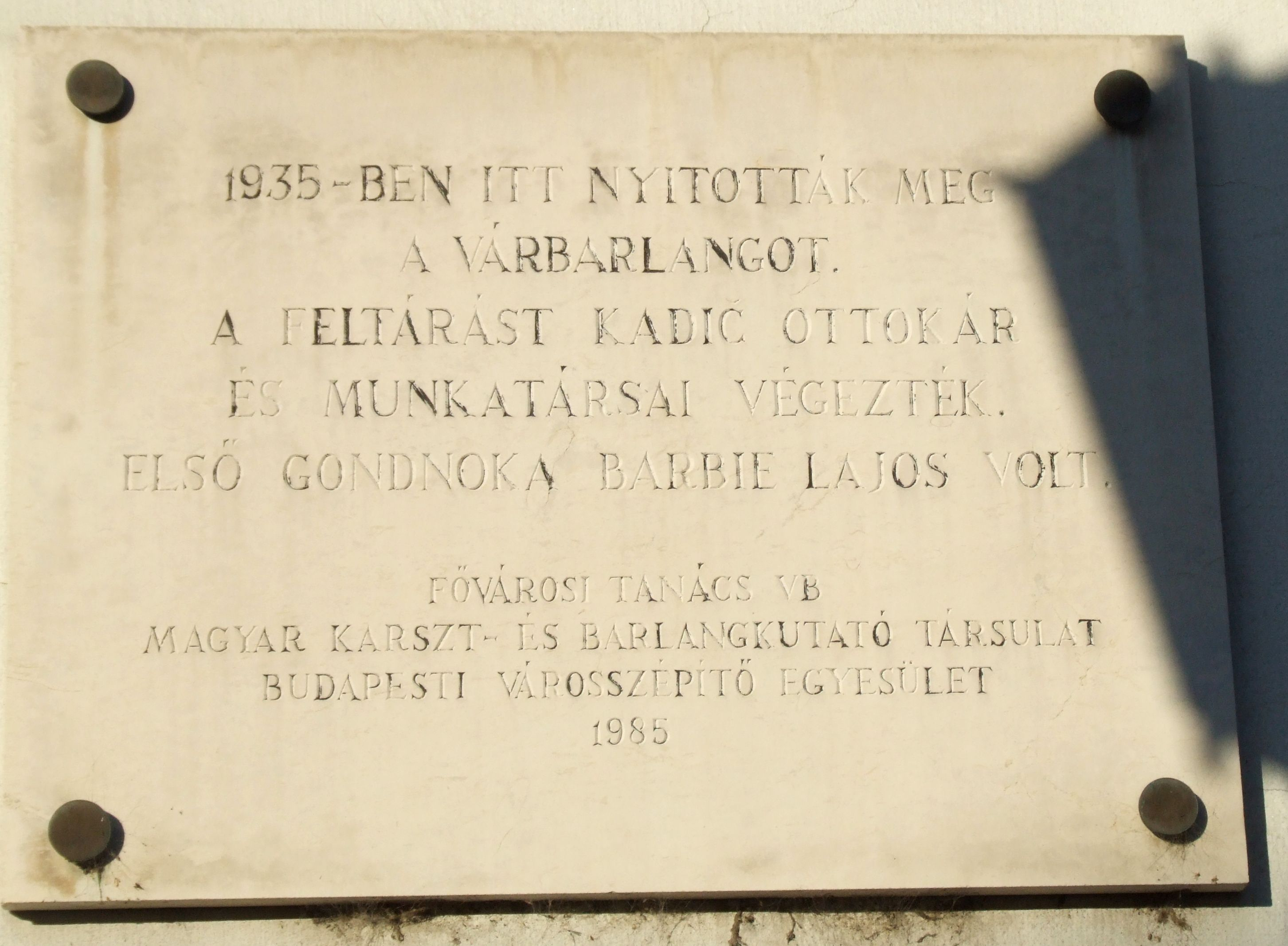 The Budai Castle Cave commemorative plaque in Budapest District I, Úri utca 21.